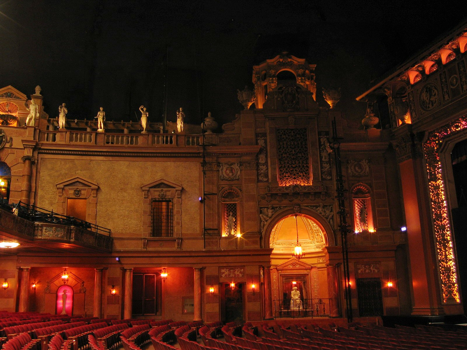 New Orleans Saenger theatre. Photo by Noah Kern. Interior view before Hurricane Katrina.